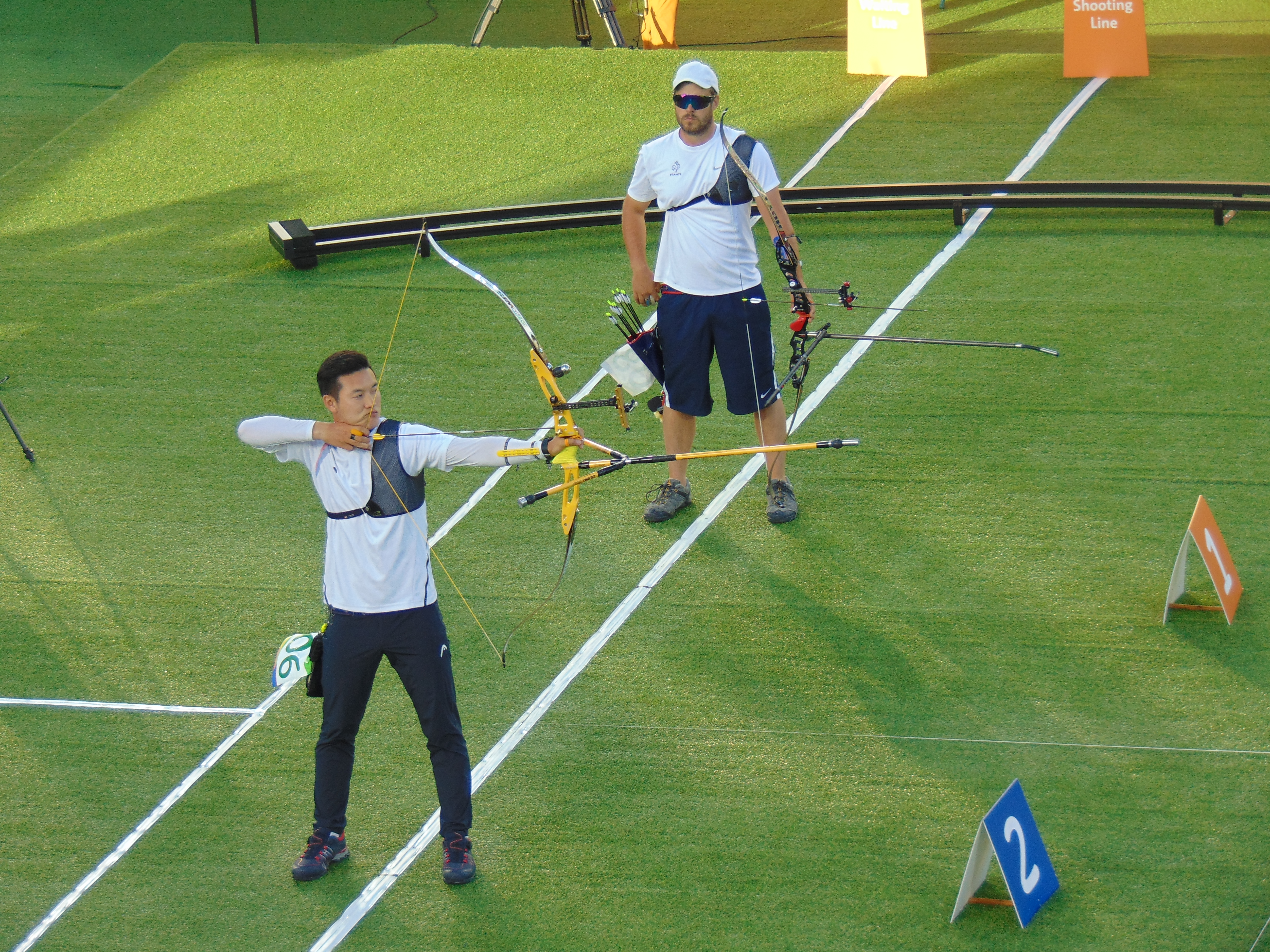 Rio 2016 - Men's archery finals